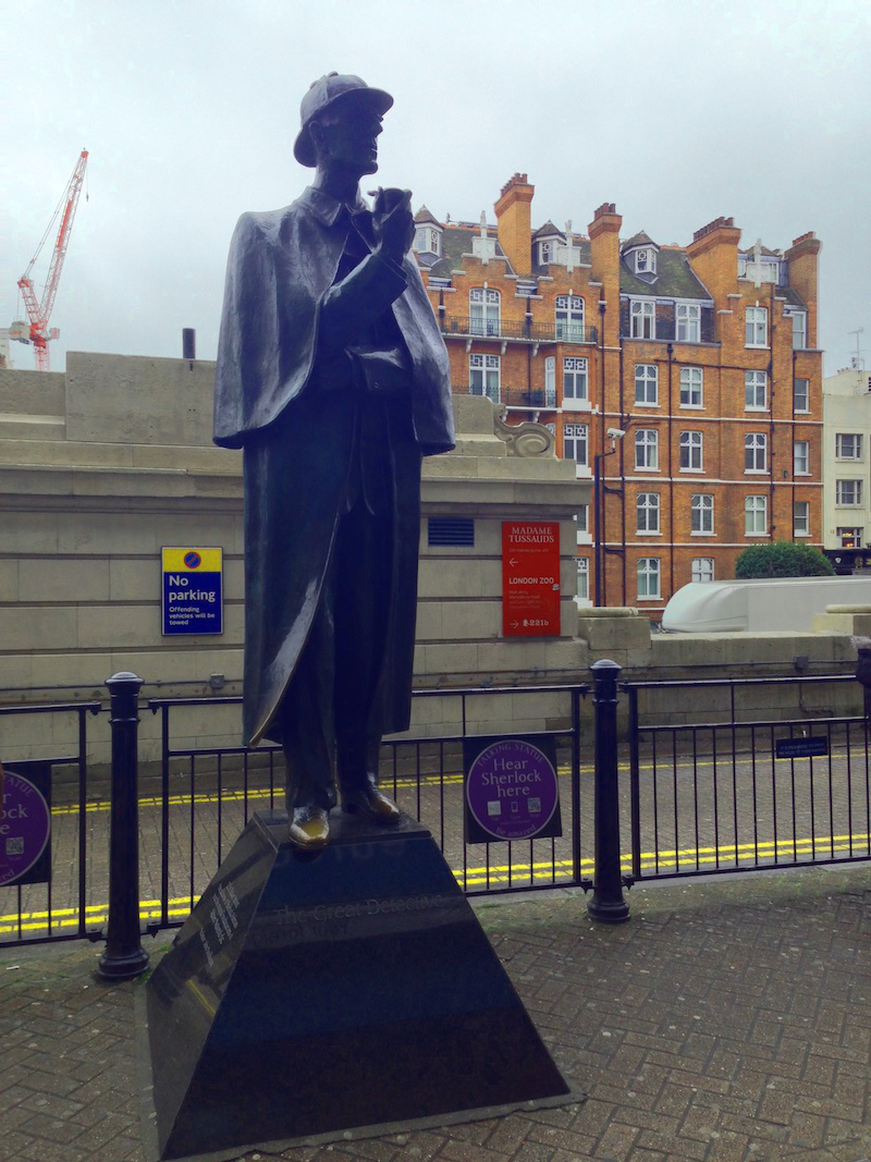 El gran detective, así se llama esta estatua conmemorativa ubicada en la ciudad de londres.